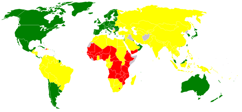 High human development Medium human development Low human development Unavailable(colour-blind compliant map) The majority of the green-colored countries constitutes the current First World.